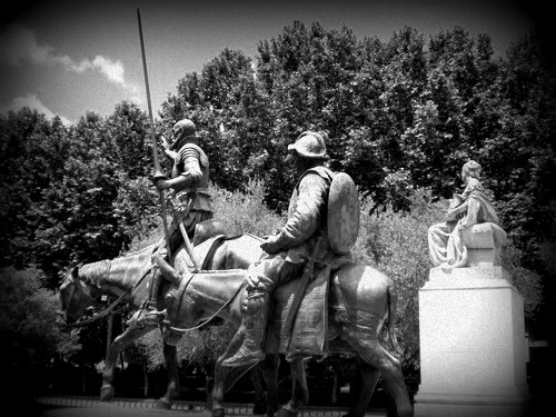 A Black and White Photograph of a statue in Madrid, Spain consisting of Bronze sculptures of Don Quixote and Sancho Panza and photographed by David Adam Kess.